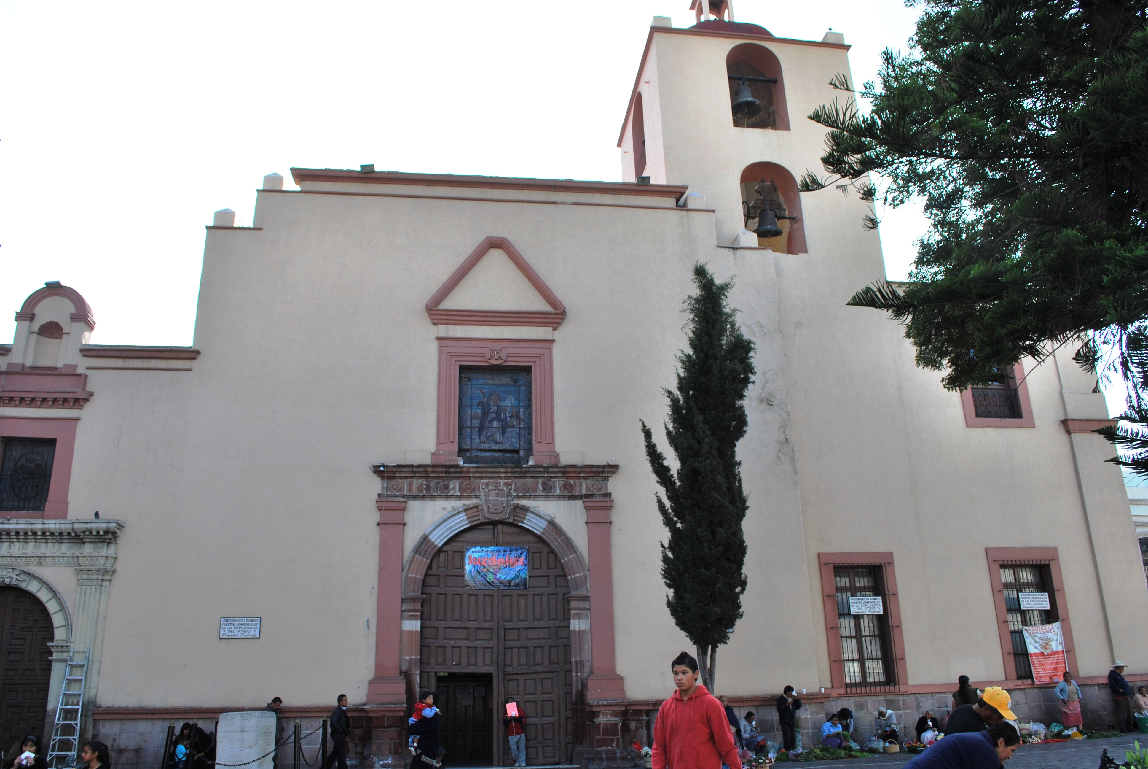 Facade of the La Asuncion Parish in Pachuca Hidalgo